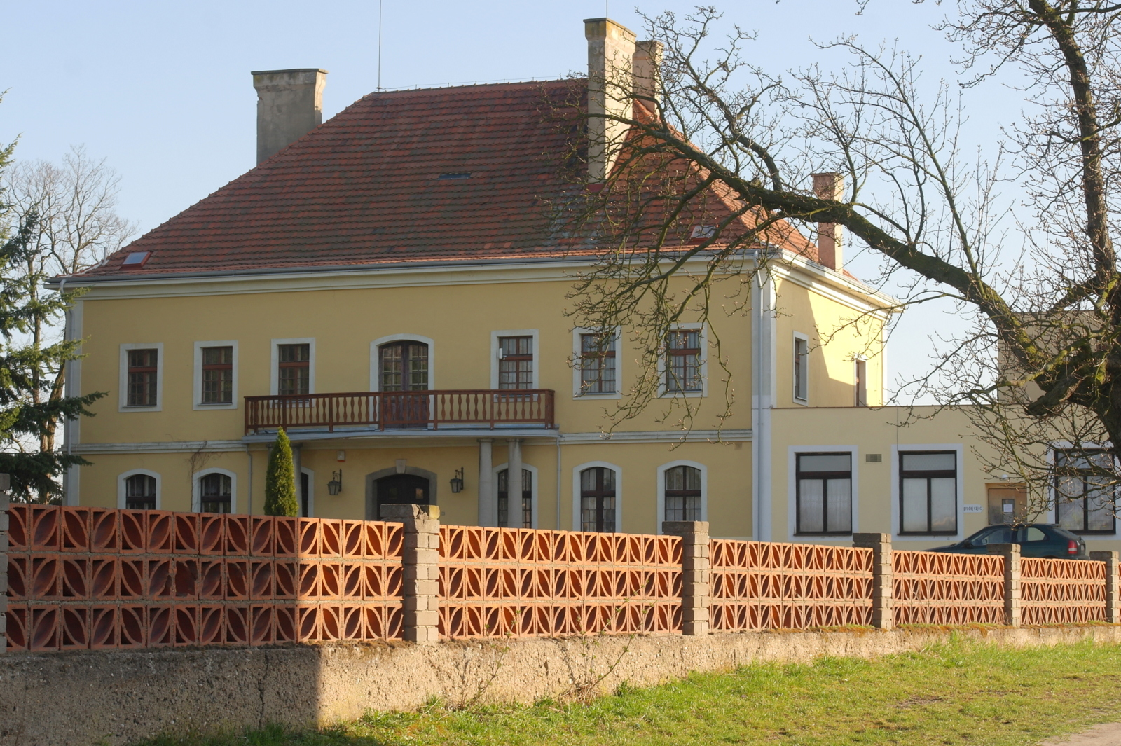 1 Cítov, Cítov, Mělník District, Central Bohemian Regin. The building in historicizing style, built on the site of the Baroque castle, which burned down in the year 1940.